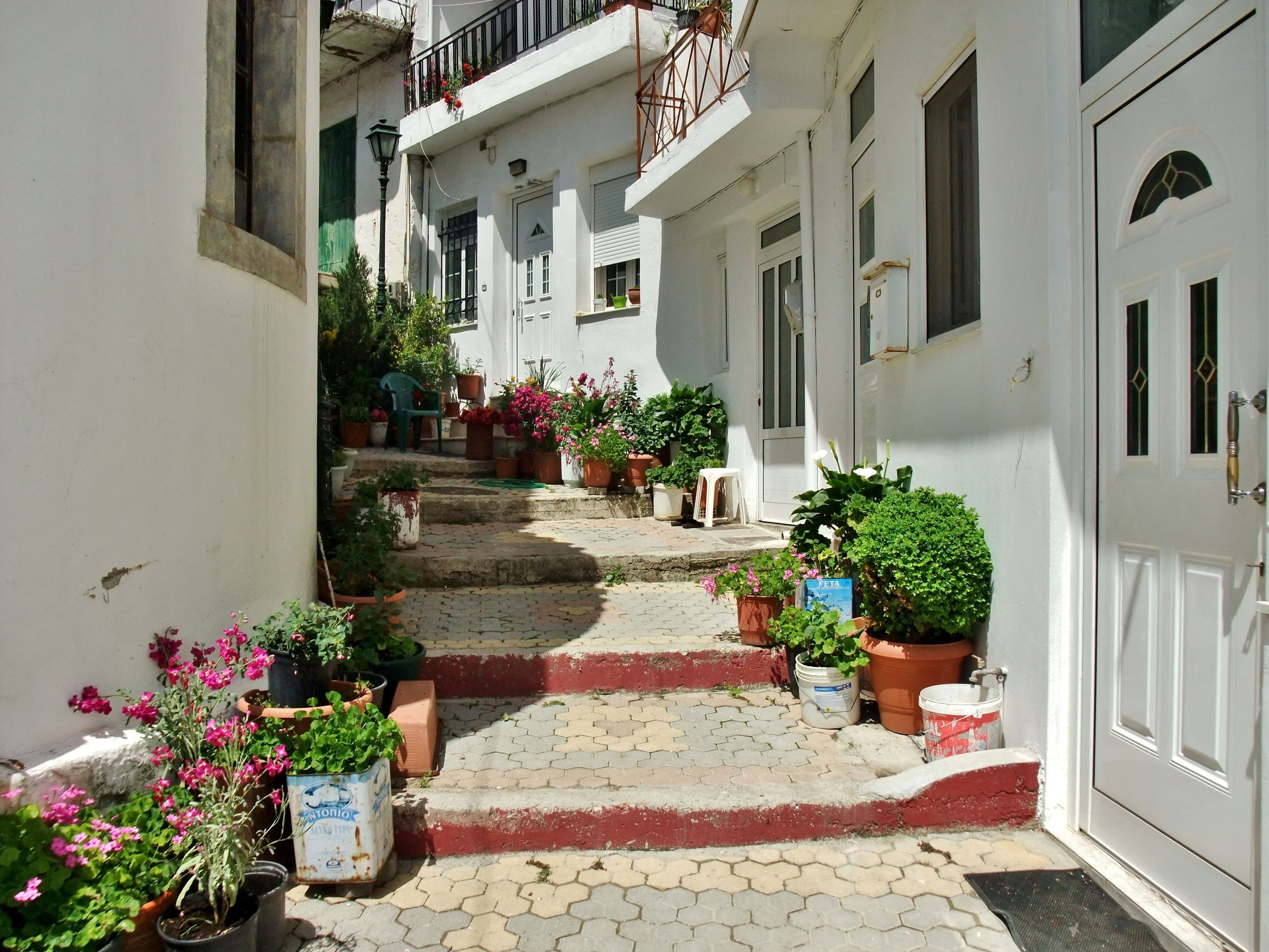 Street in Tzermiado, Lasithi Plateau, Crete, Greece